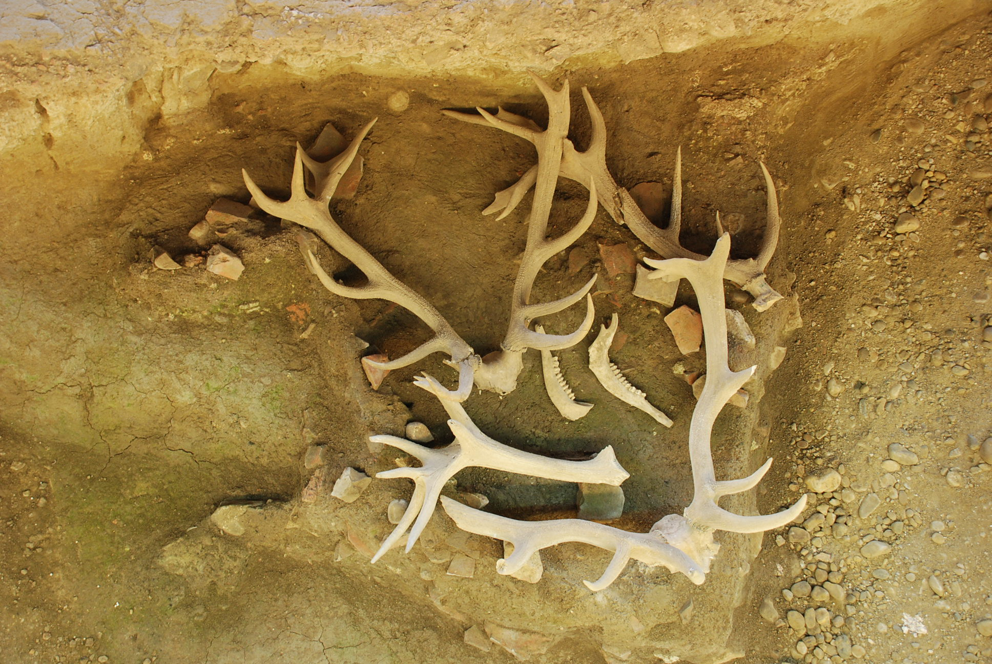 Excavations at the Roman Villa of La Olmeda, Pedrosa de la Vega, Palencia, Castile and León). Antlers of a deer in the trench that runs through the village after goodwill amortization at the end of the 4th century a.d.